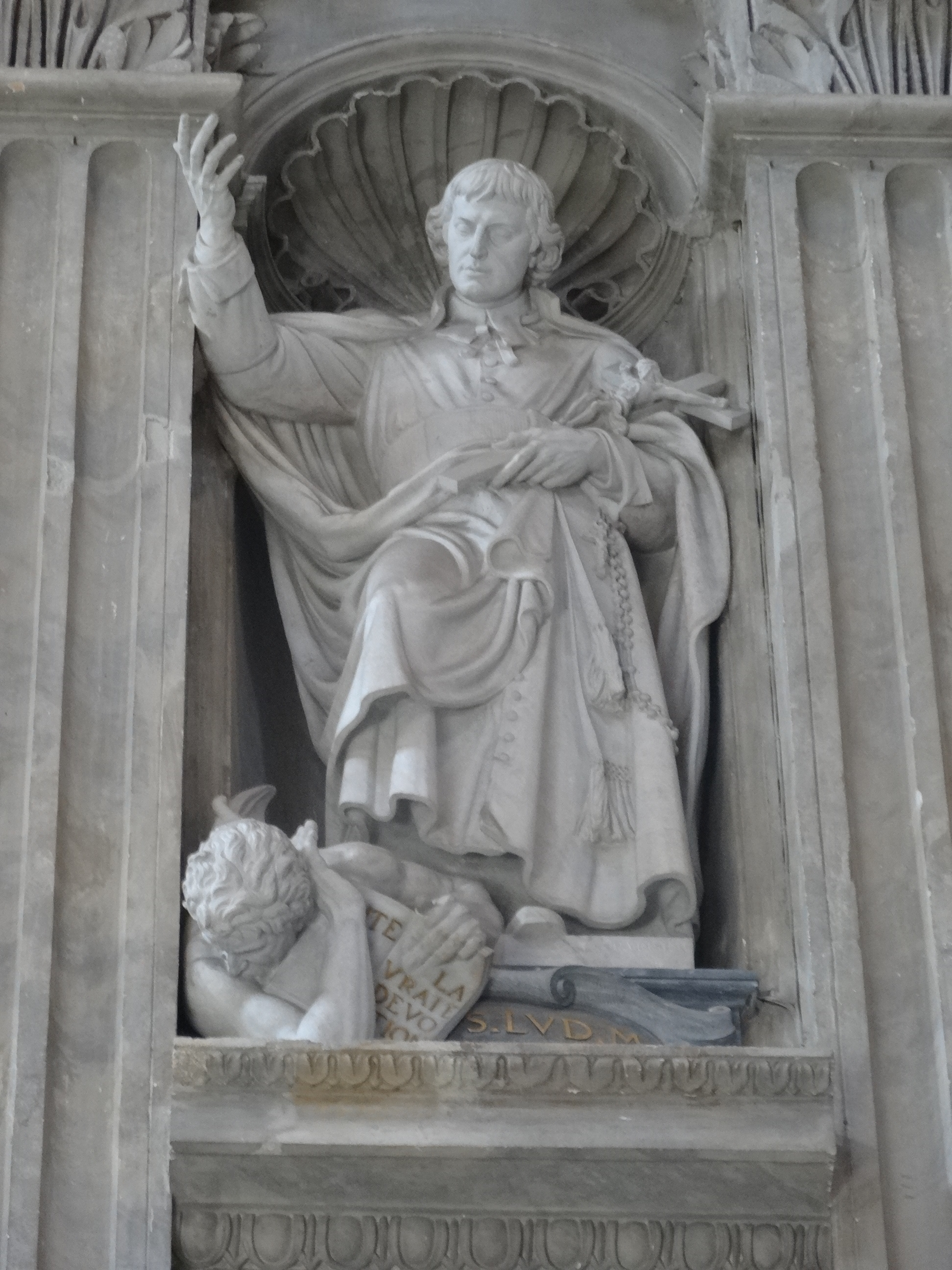 Statues in Saint Peter's Basilica. Saint Louis de Montfort. Founder Statue by Giacomo Parisini, 1948